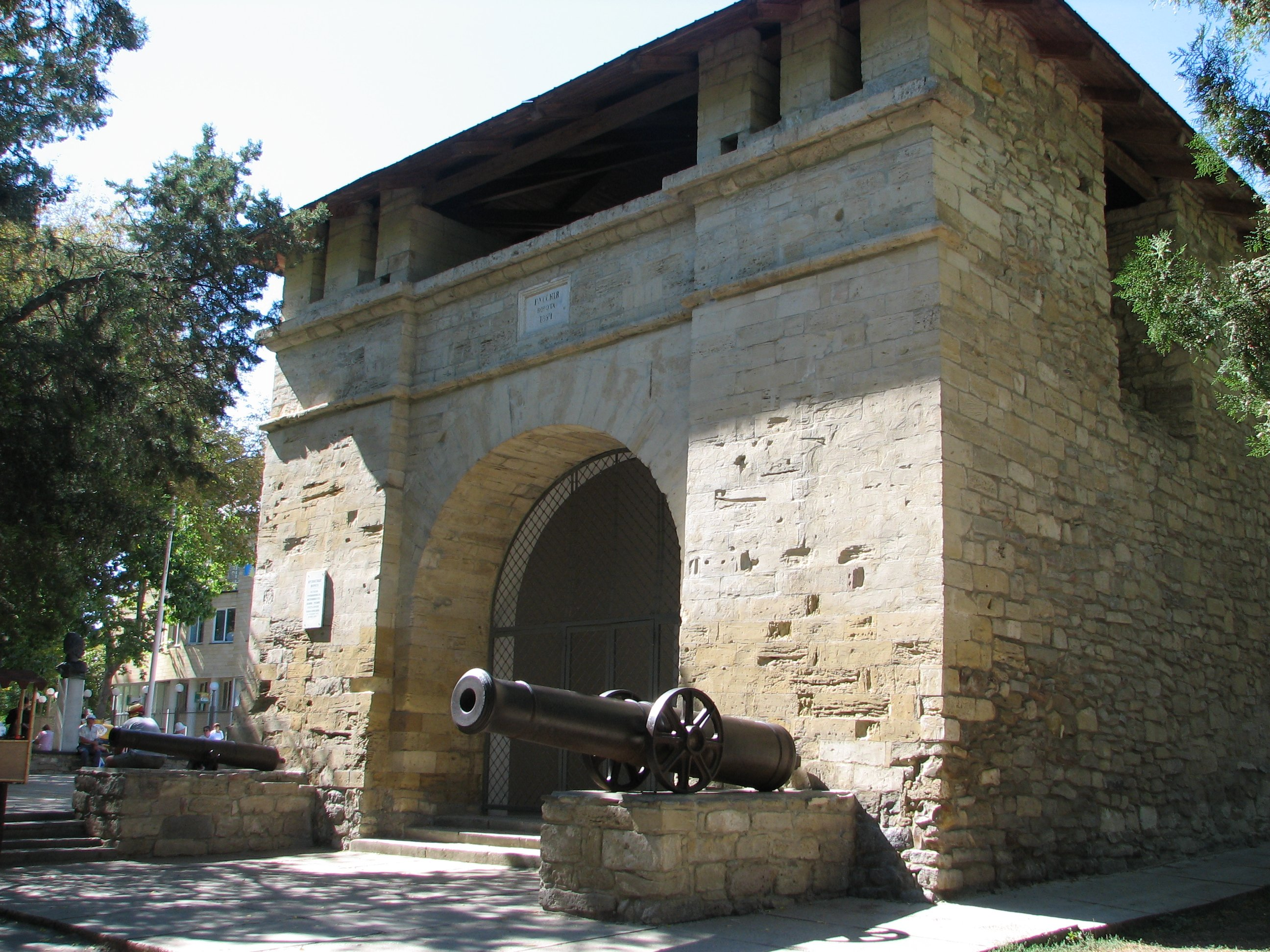 Anapa. Russian gate